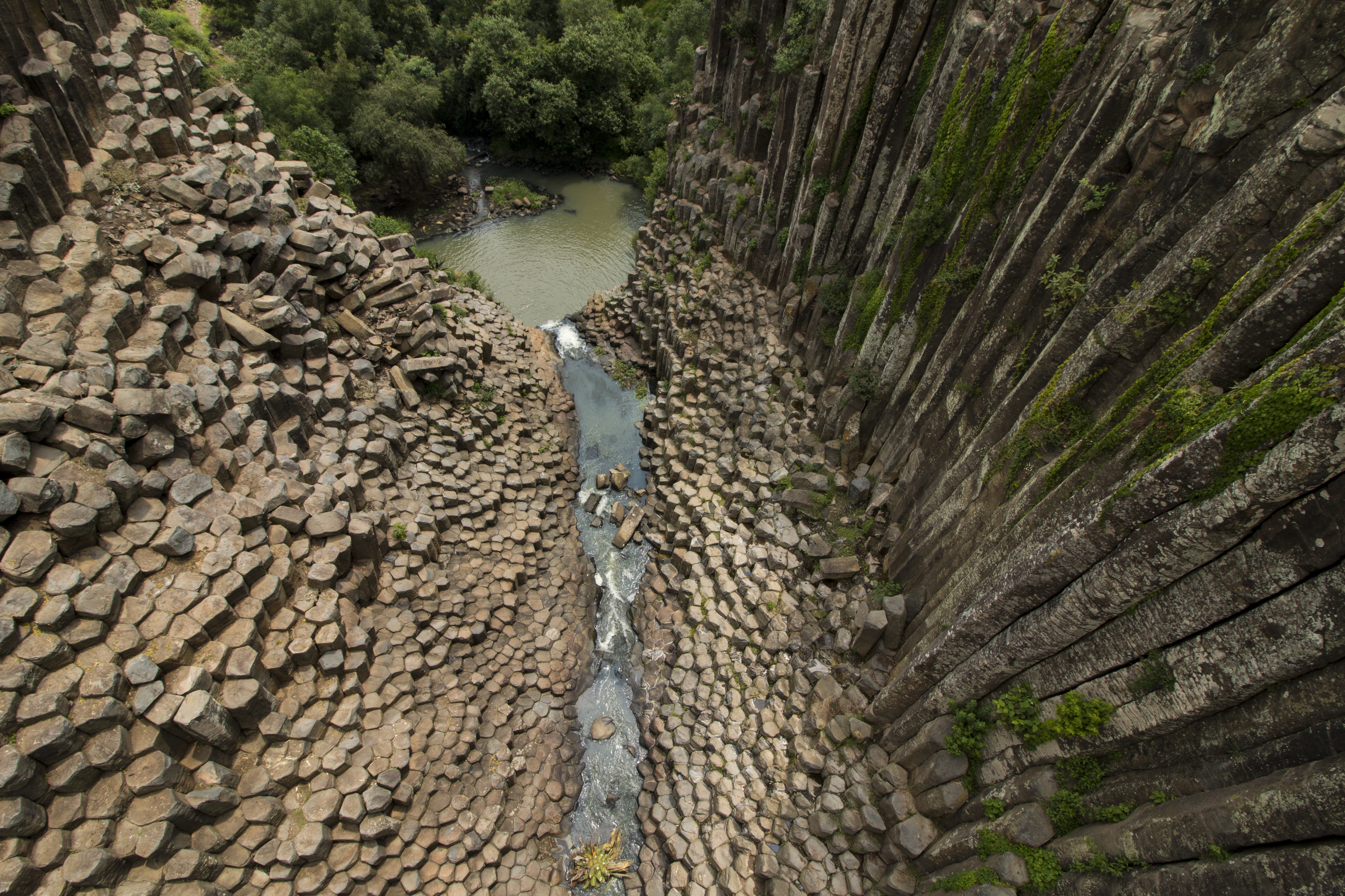 Prismas basálticos geosite by Rodrigo Ruíz